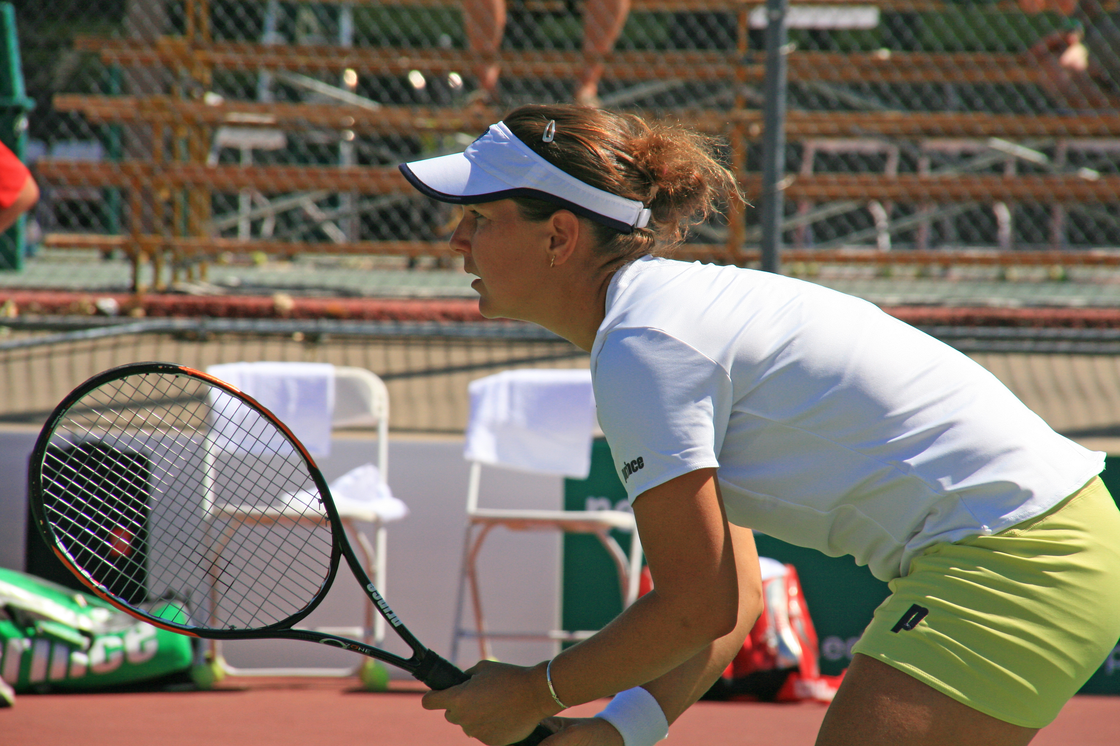 Jorgelina Cravero at the Coleman Vision Tennis Championship in Albuquerque, New Mexico.